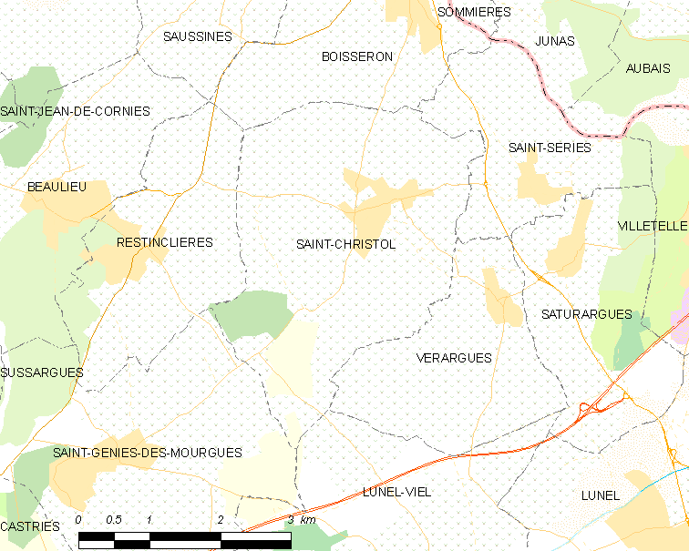 Map commune FR insee code 34246.png - Saint-Christol (Hérault)